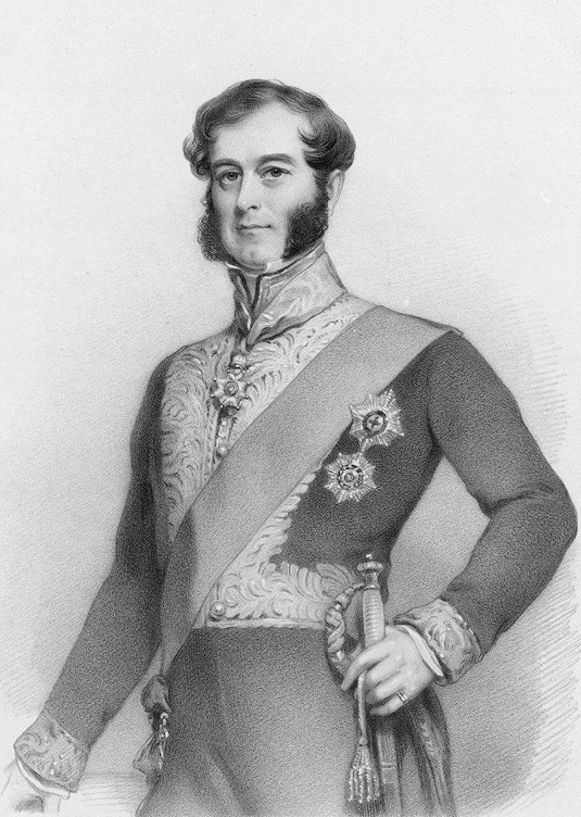 Portrait of Richard Temple-Grenville, 2nd Duke of Buckingham and Chandos